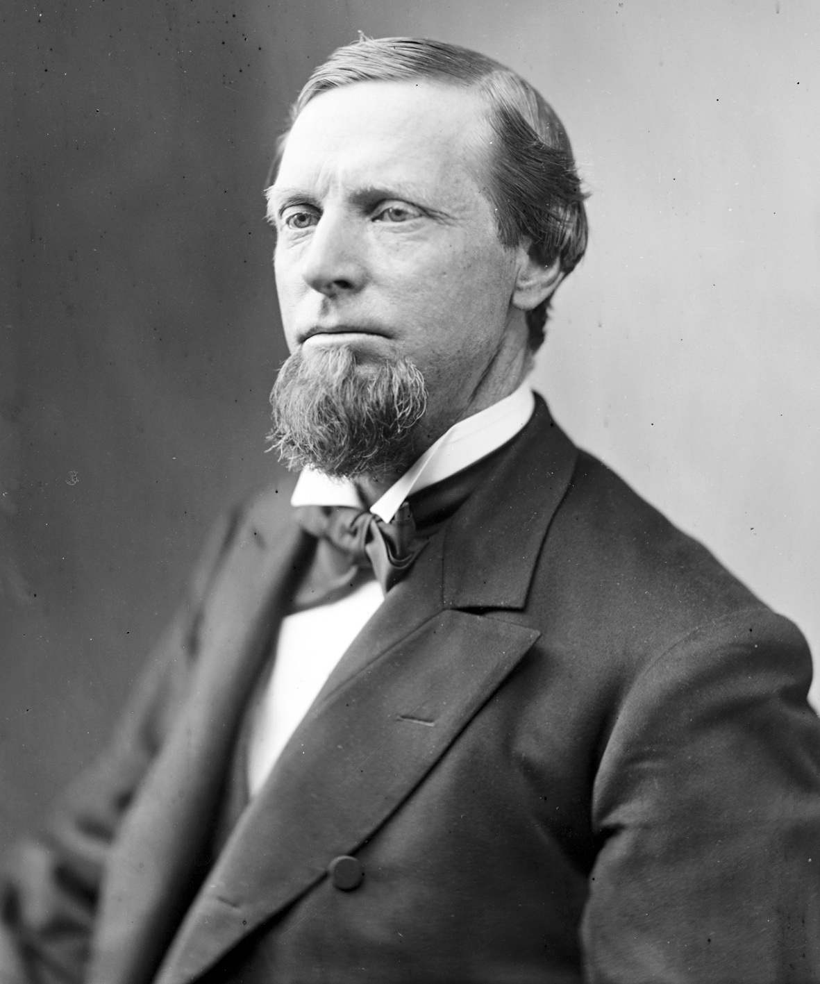 Levi Warner, US Representative from Connecticut